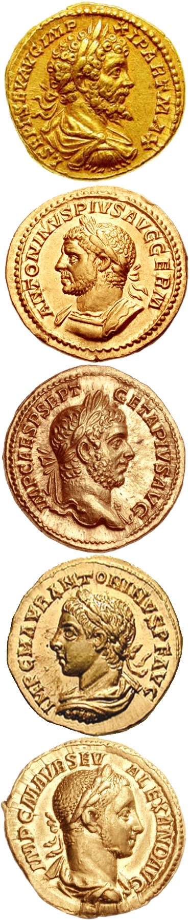 Caracalla. AD 198-217. :AV Aureus (21mm, 6.43 g, 7h). Rome mint. Struck AD 216. :::ANTONINVS PIVS AVG GERM, laureate and cuirassed bust left; :::P M TR P XVIIII COS IIII P P, Sol, holding reins in right hand, whip in left, driving galloping quadriga left. :RIC IV 282d; Calicó 2749; BMCRE 174.